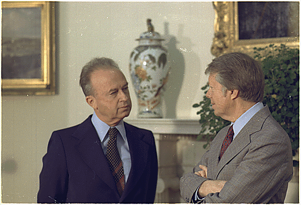 Prime minister Rabin meeting President Carter at the White House